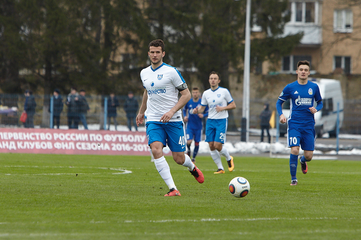 FC Baltika - FC Volgar (2017-03-08)